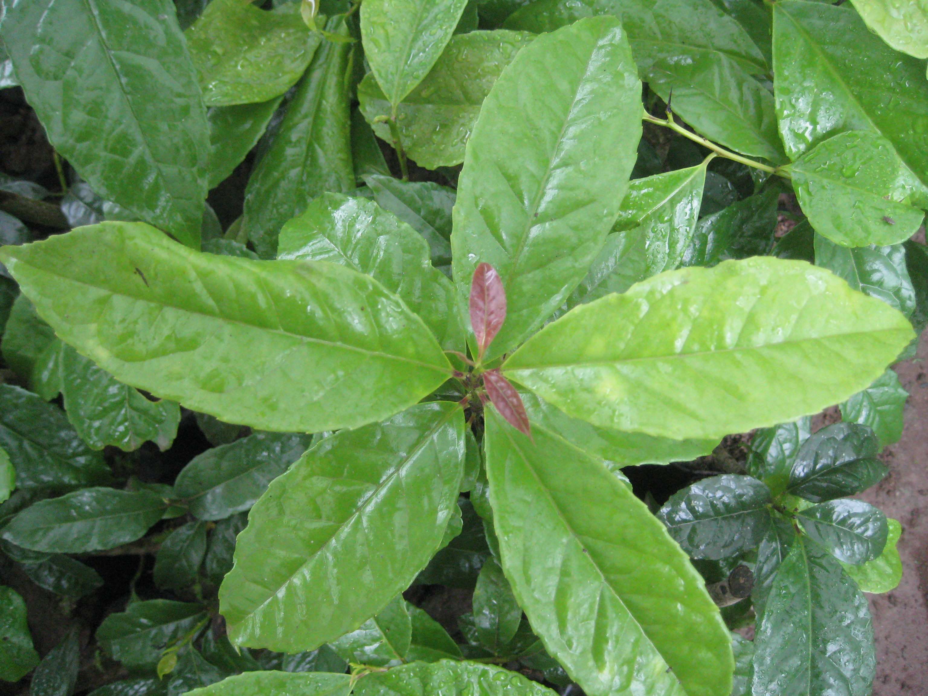 Ilex guayusa from above in foreground.